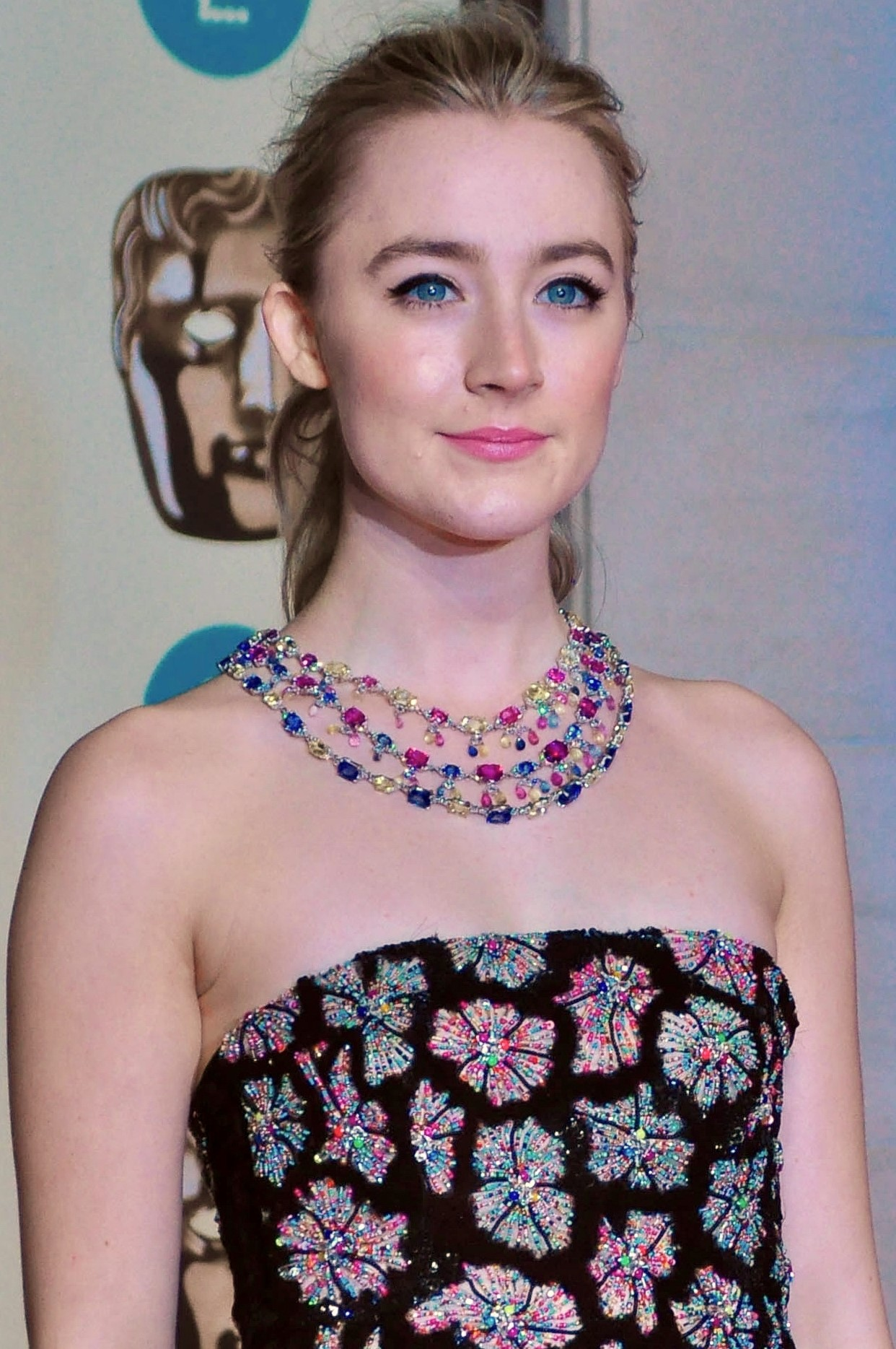 Saoirse Ronan at BAFTA 2016